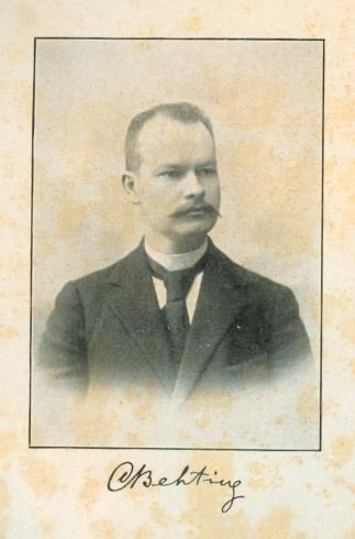 Karlis Bētiņš (1867-1943), Latvian study composer and chess master, in 1908